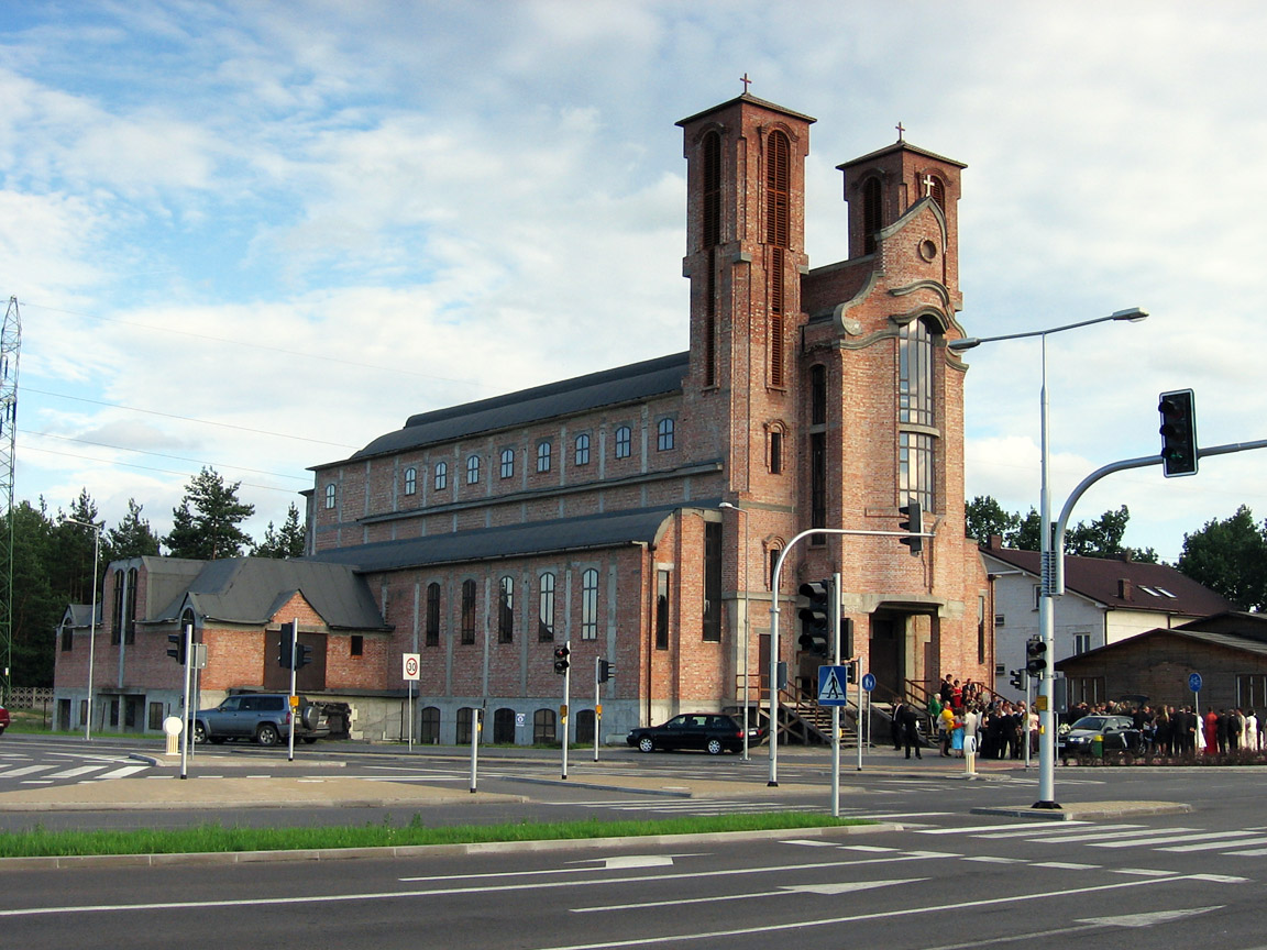 City of Ostroleka (Poland), church of Saint Francis of Assisi.